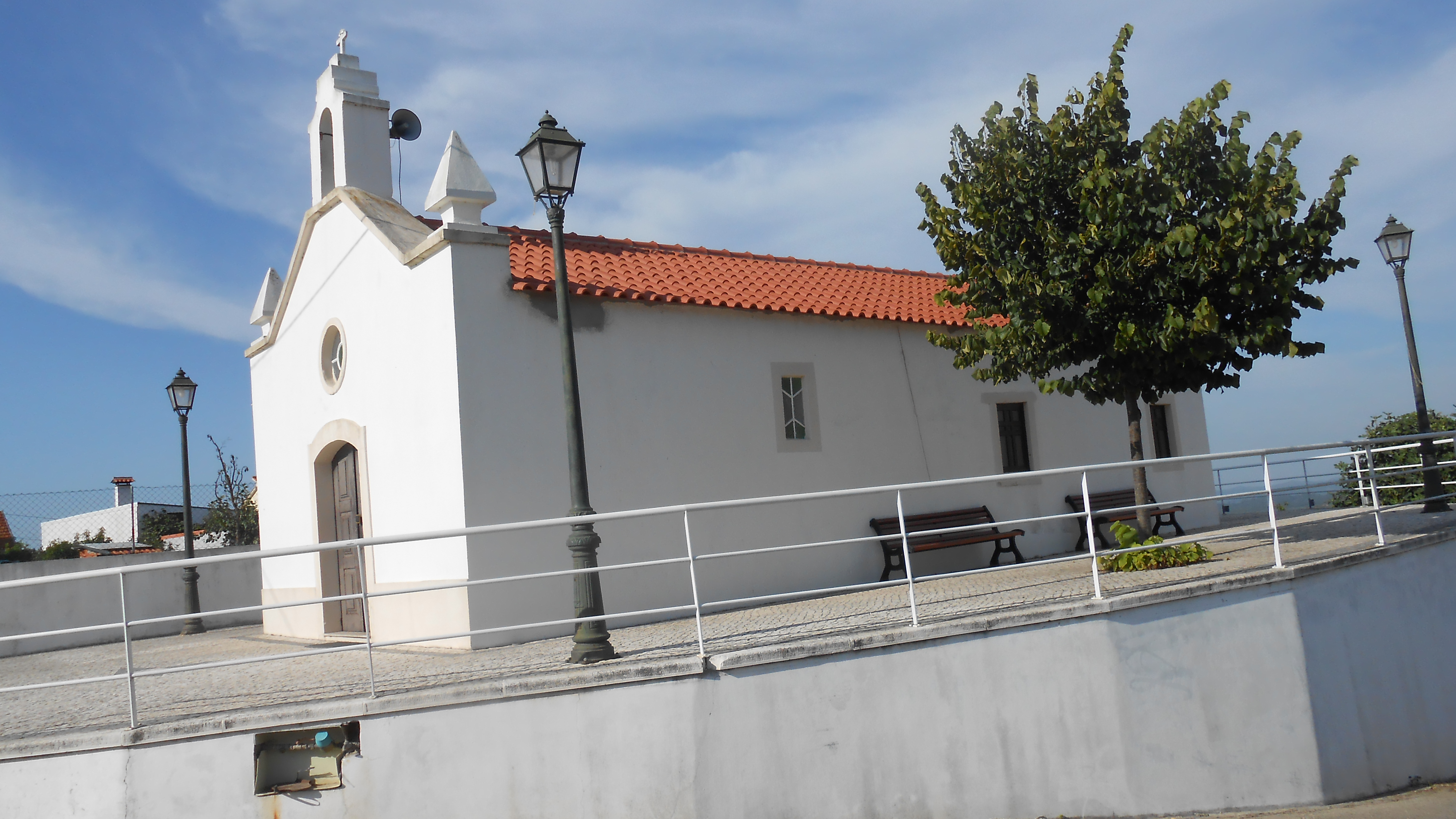 The chapel of Coles, the main place in the Samuel parish, Soure, Portugal